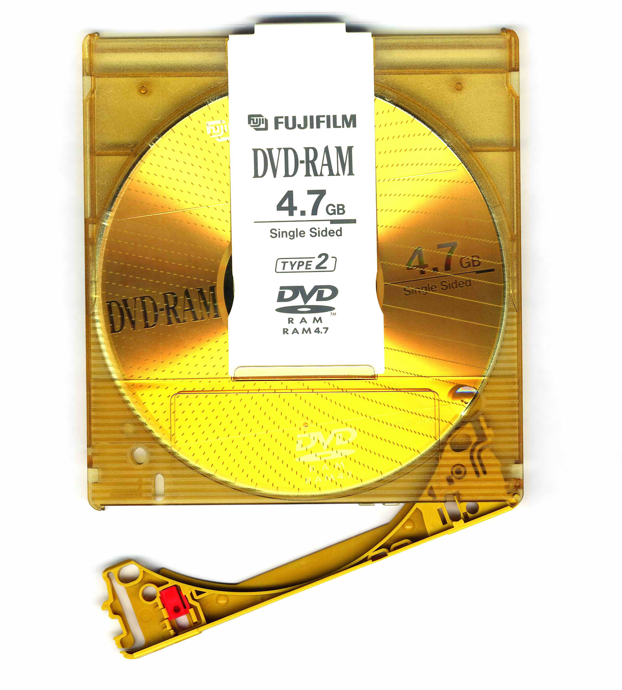 DVD-RAM without cartridge locking pin and open cover.